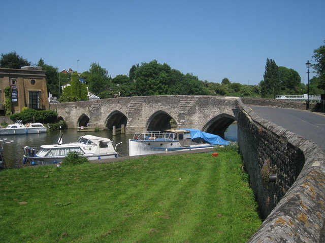 East Farleigh Bridge, Station Road, Barming, Kent Grade II listed